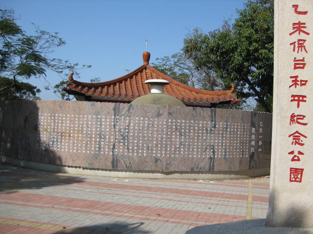 The Taiwanese-Japanese War martyr's memorial park at Baguashan.Bân-lâm-gú: It-bī Pat-kuà-suann tsiàn-i̍k pi-kì.